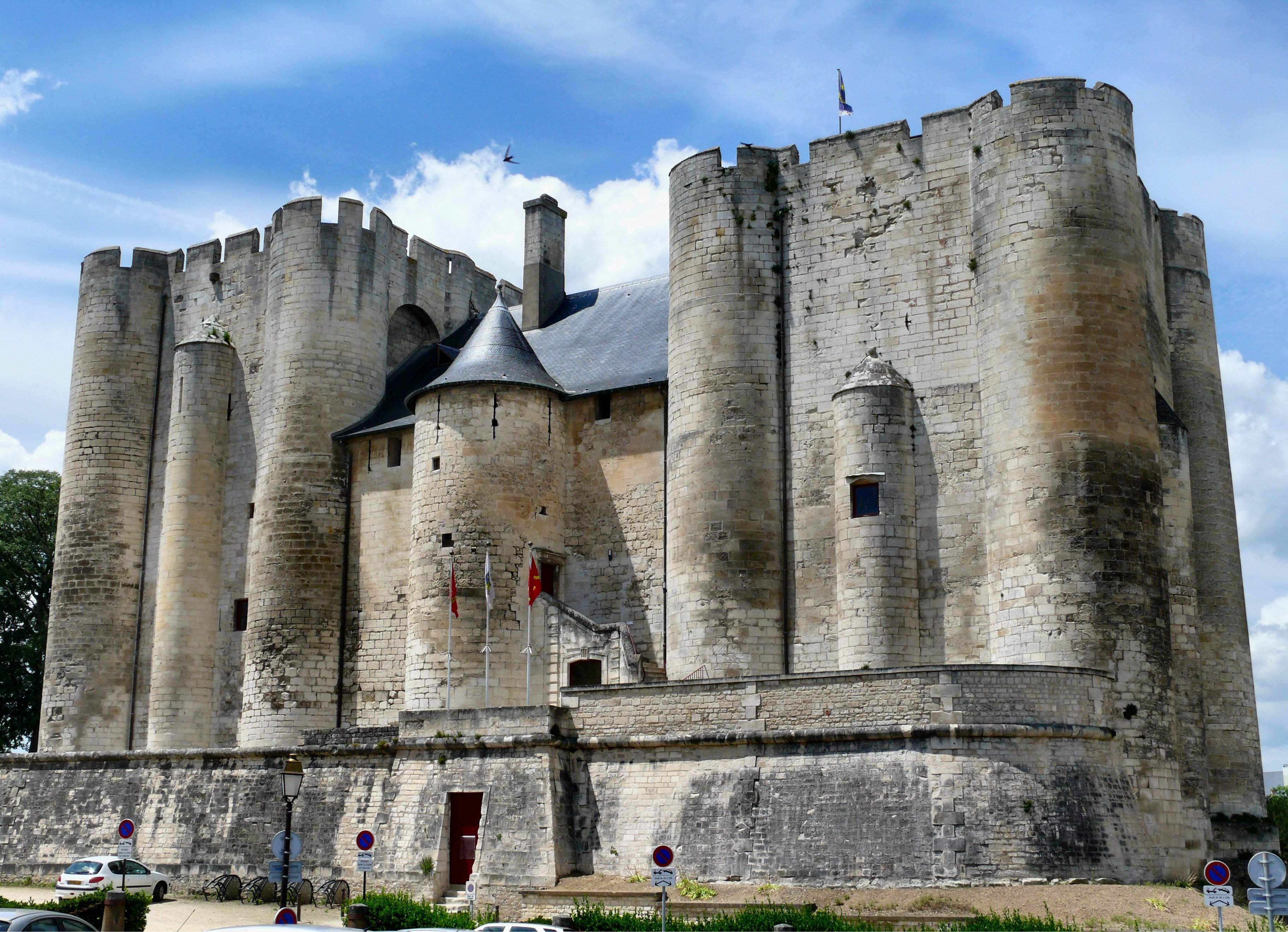 The Donjon building at Niort, is the surviving part of an old medieval castle, buided by Henri II plantagenet, king of England during the 100 years war.